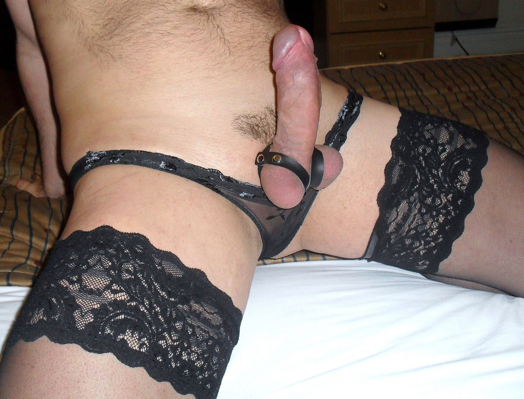 A feminized male wearing a ball separator.